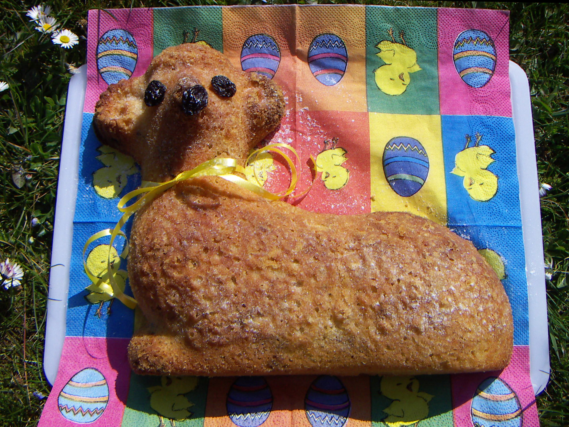 Sweet Easter lamb cake, Czech Republic